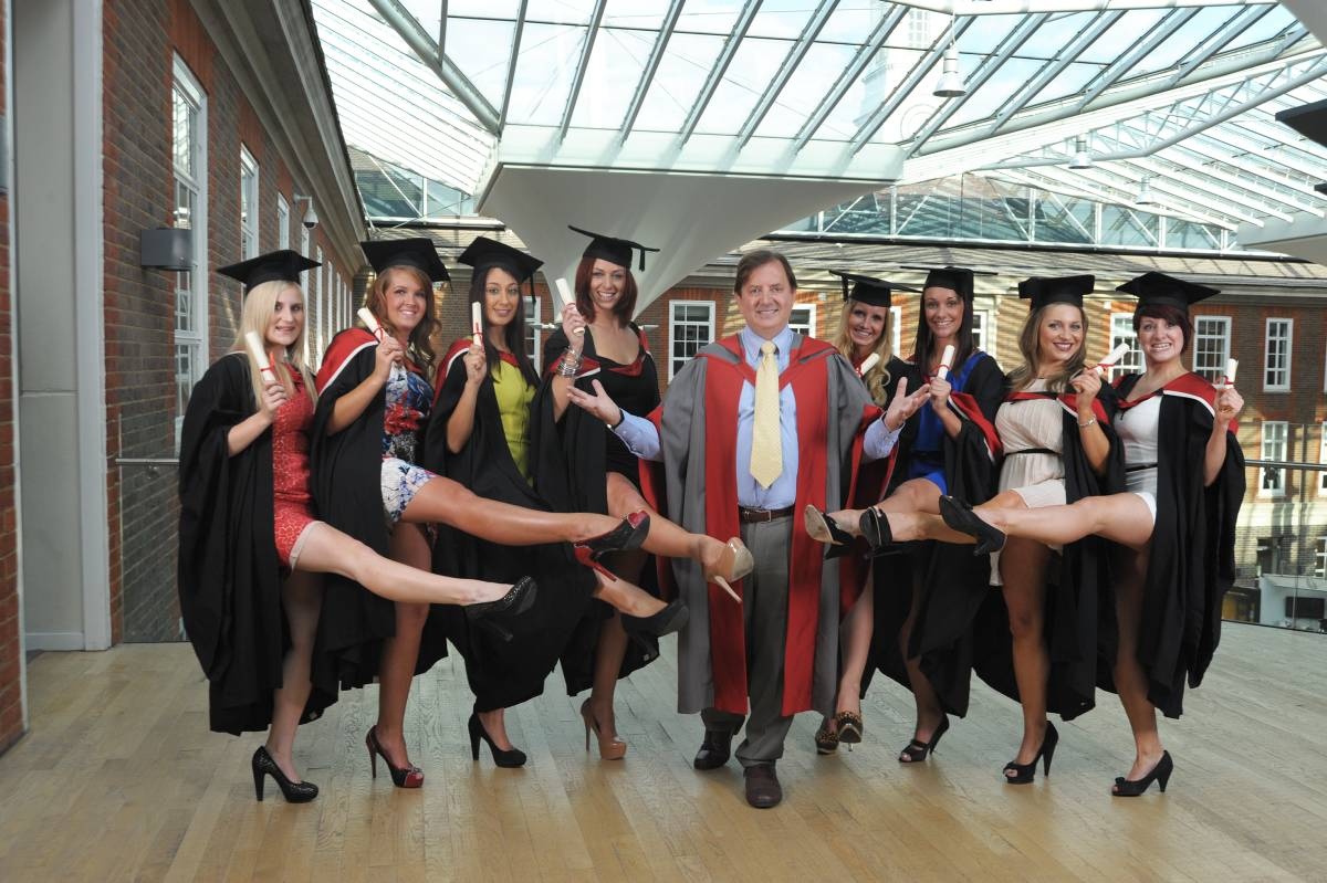 Theatre producer David King poses with performing arts graduates at Middlesex University where he was awarded an honorary doctorate for services to showbusiness.